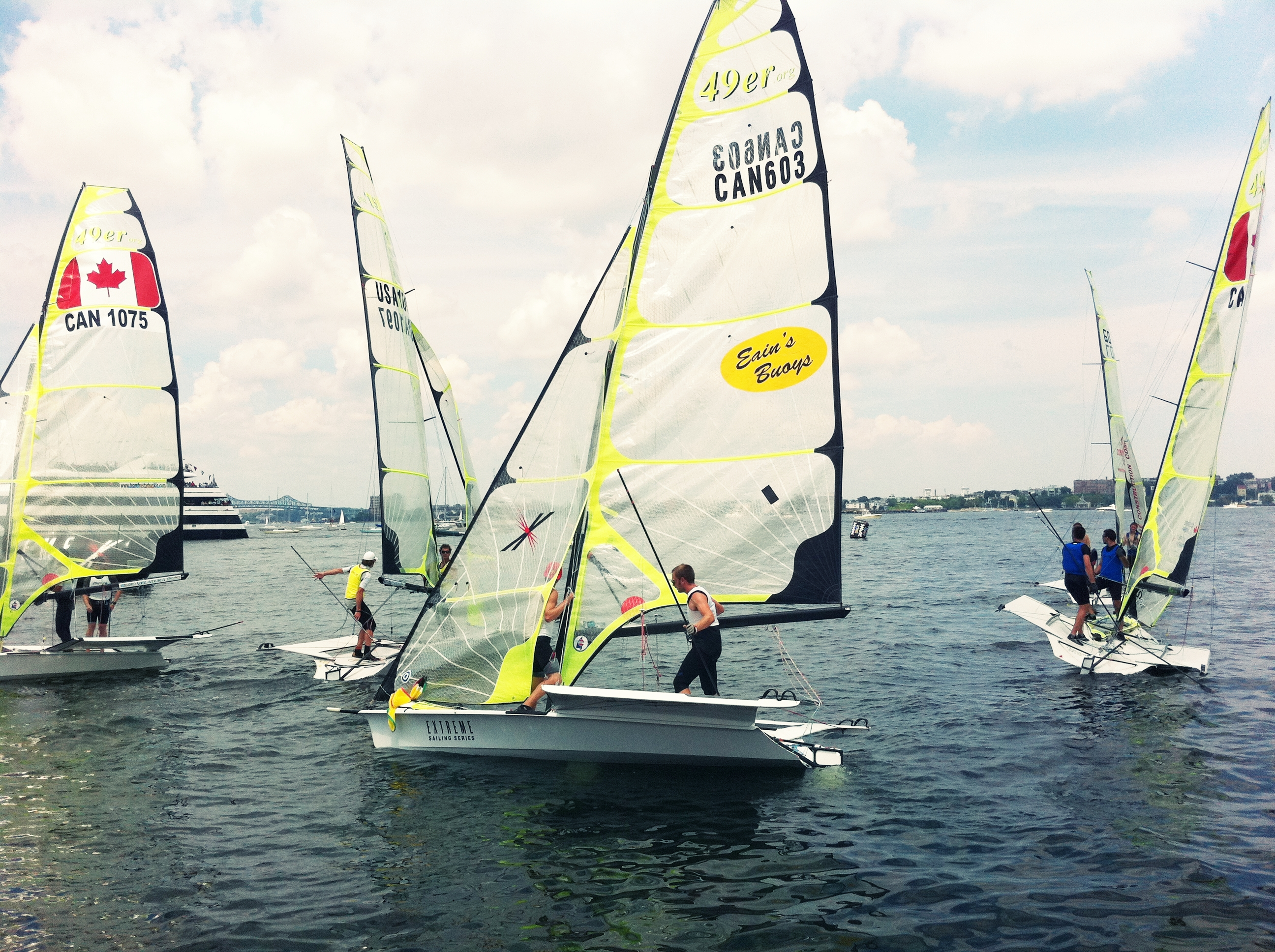 49er sail boats preparing at the start of a race from the Extreme Sailing Series in Boston Harbor on July 4th, 2011.